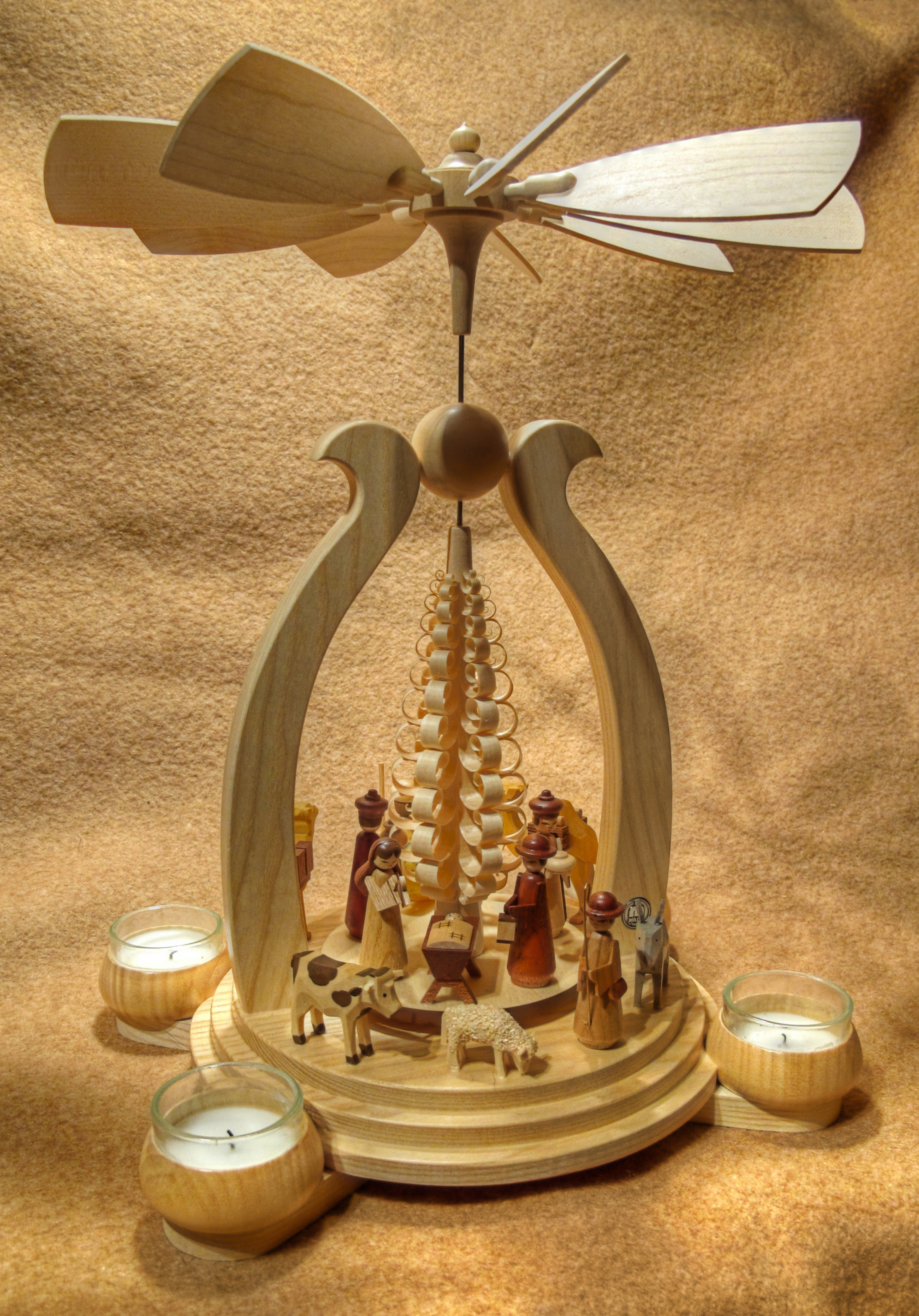 A modern wooden one-level Christmas pyramid with nativity scene (Holy Family, the Magi, shepherds), about 32 cm high. Manufacturer: Firma Müller Kleinkunst. The wheel is driven by 4 tea light candles.